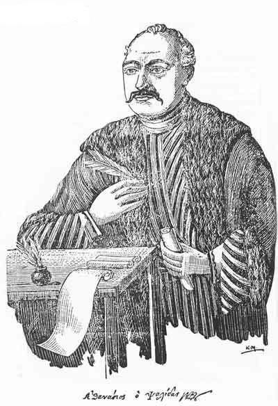 Portrait of Greek scholar Athanasios Psalidas (1767-1829)